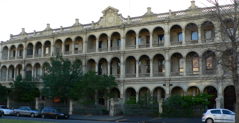 Three storey terrace houses in Drummond Street Carlton, Victoria.